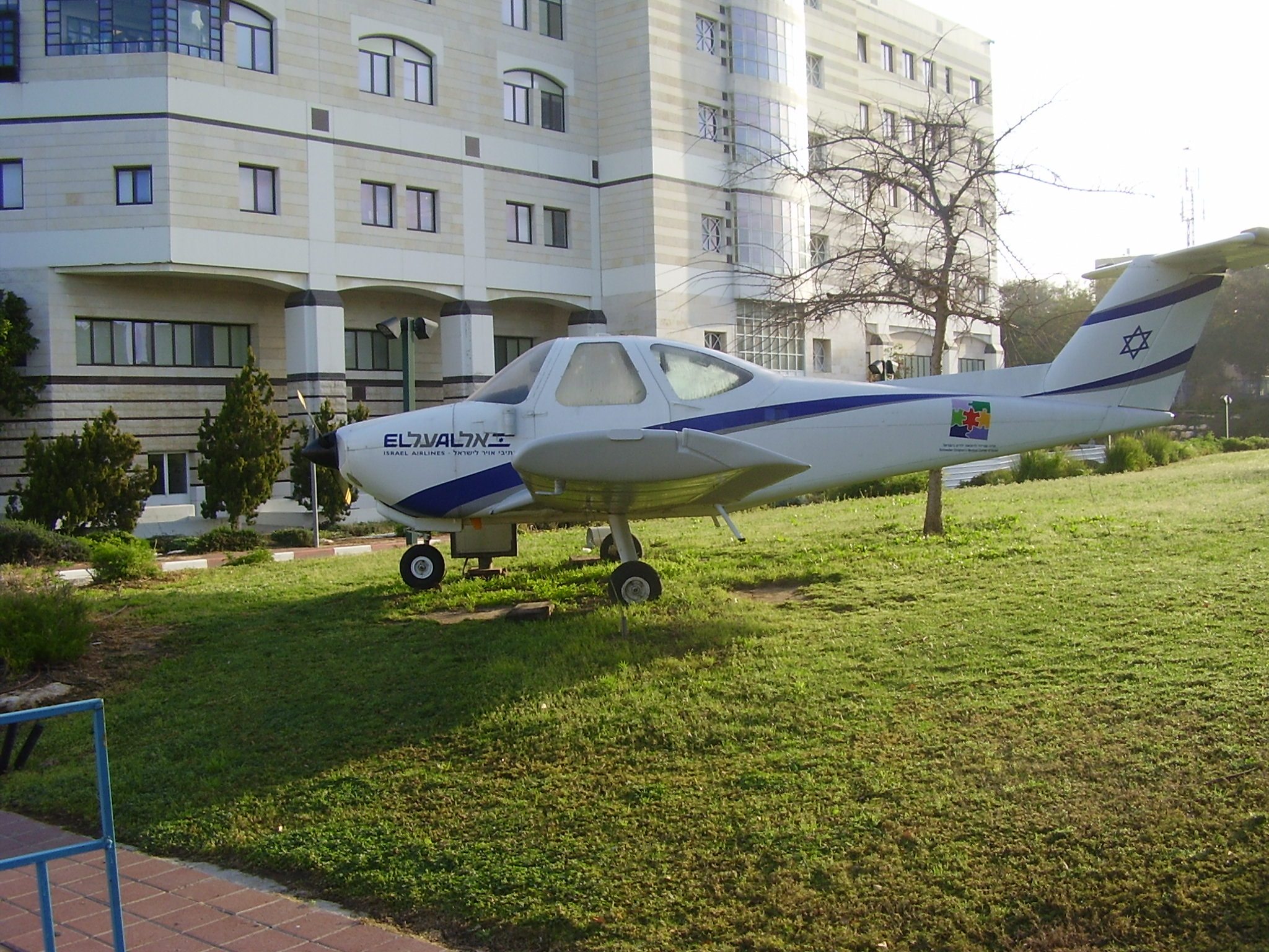 small aircraft in schneider children hospital in petakh tikva